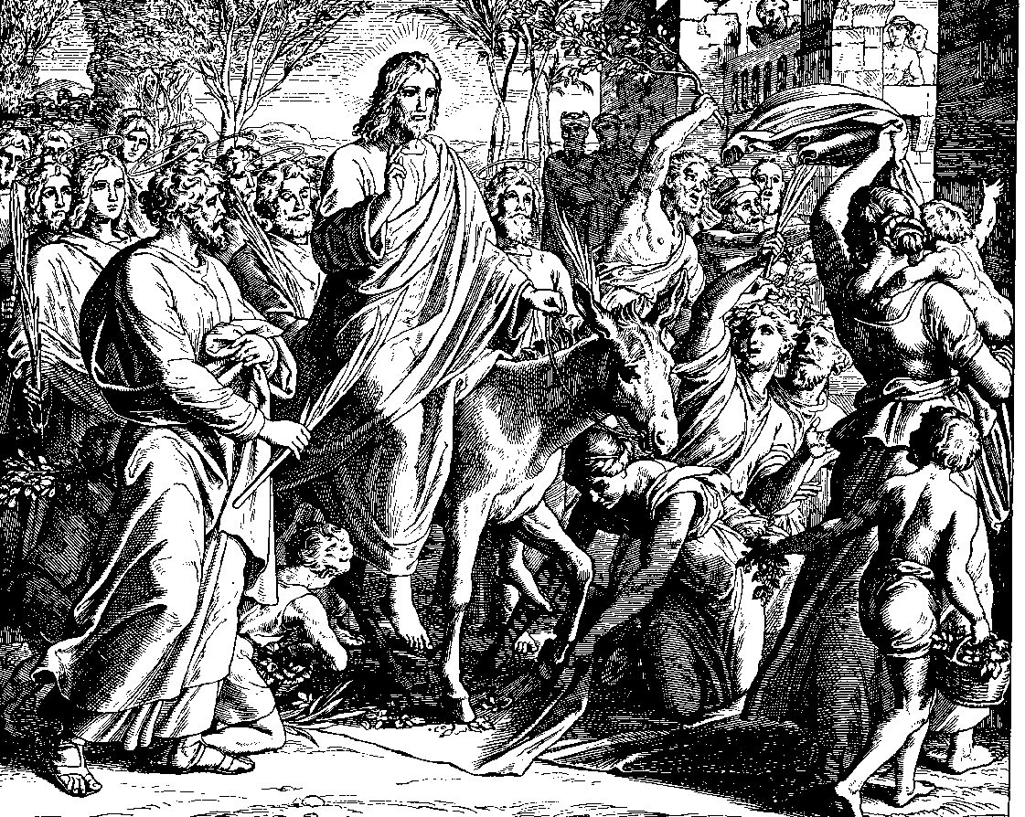 Woodcut for "Die Bibel in Bildern", 1860.